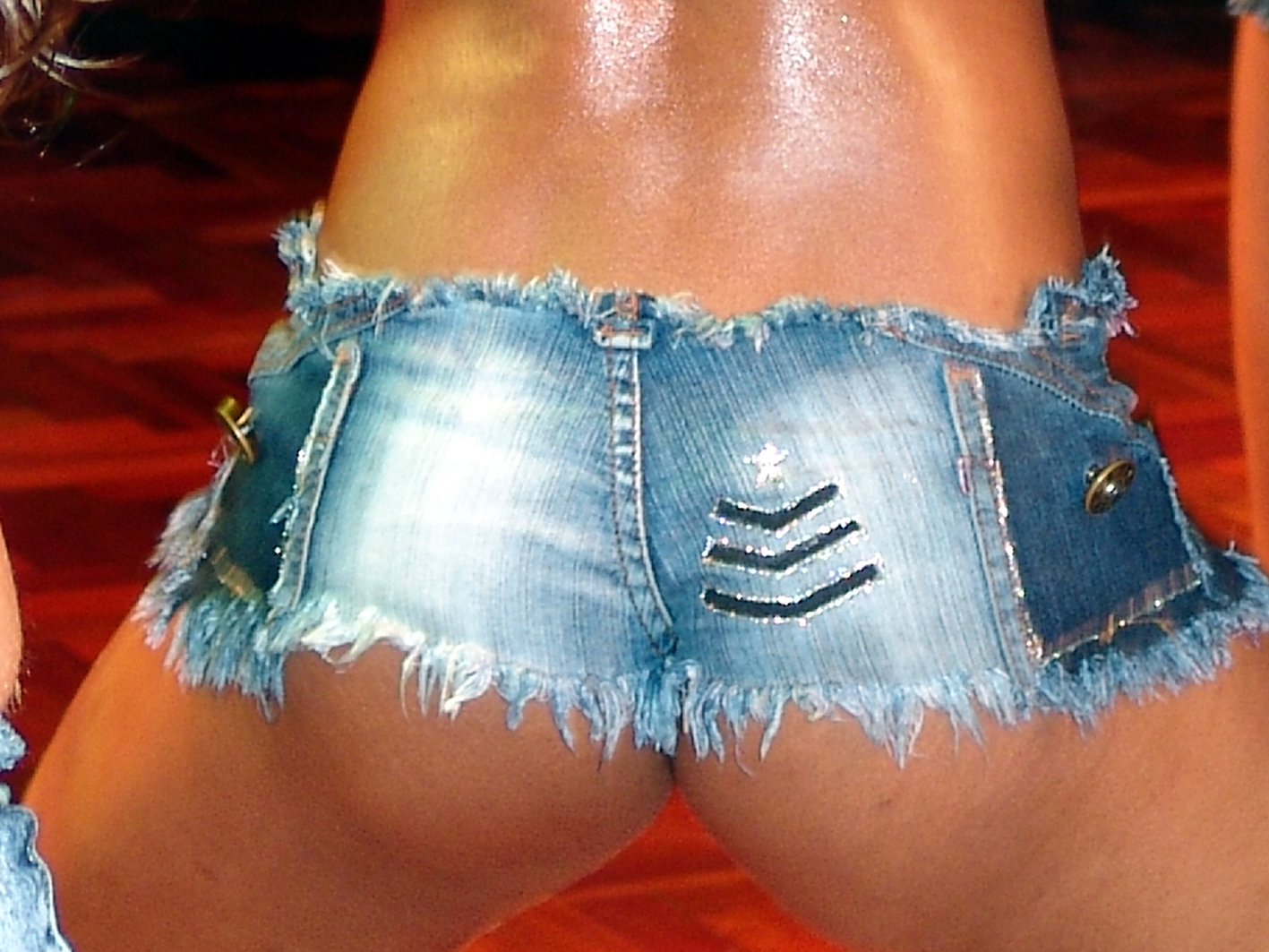 Dancing in hot pantsaRlo´s Request